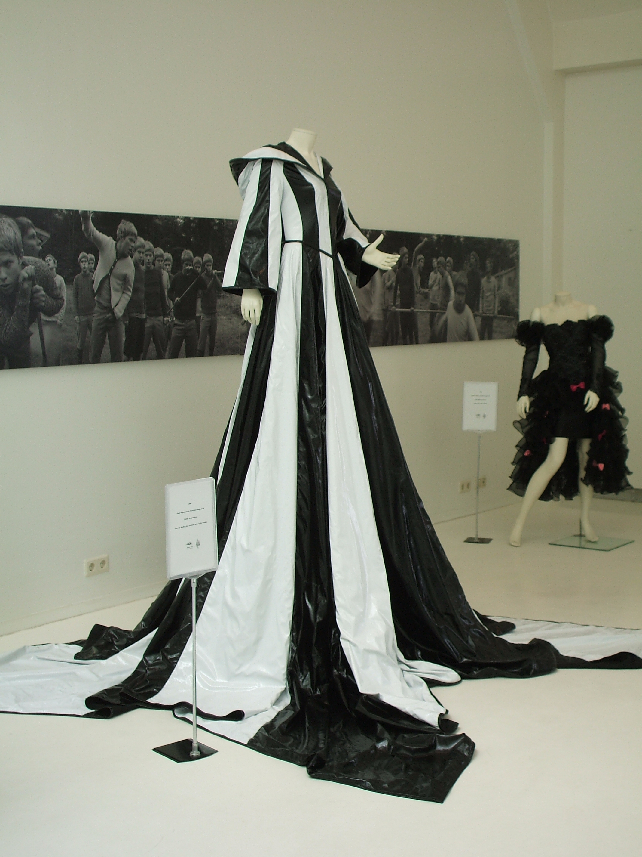 Linda Wagenmakers' 2000 Eurovision Song Contest dress at the "May we have your dress, please?!" exposition for benefit of the Sandra Reemer Foundation